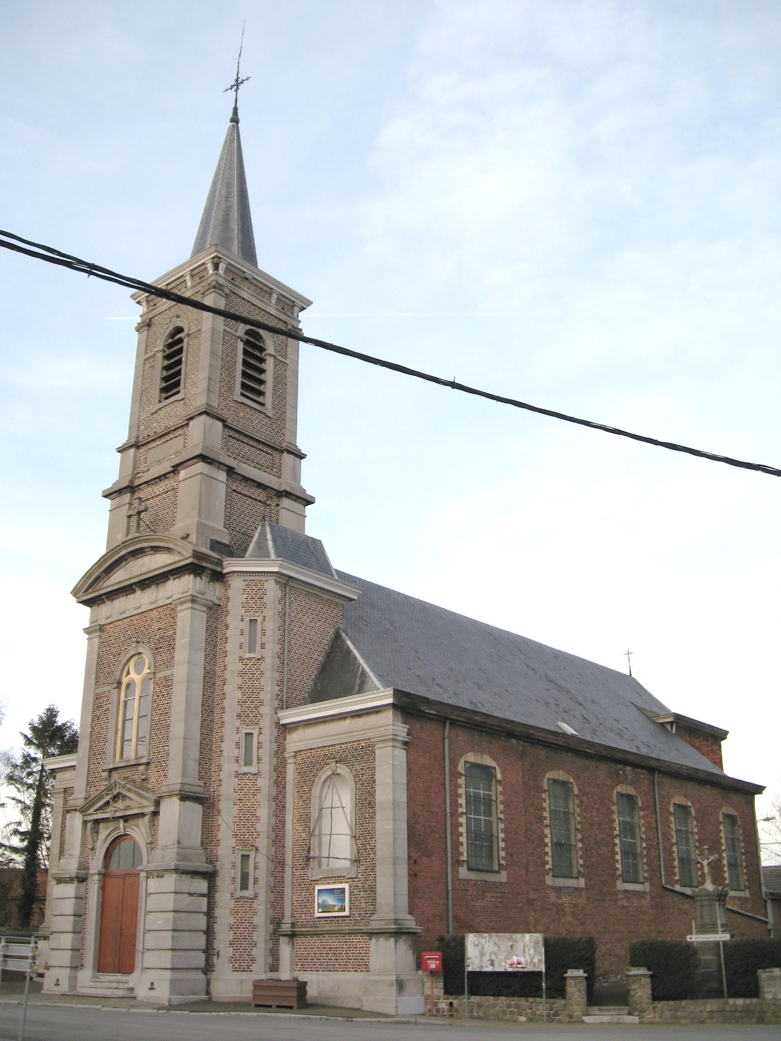 Church of Saint Martin in Slins, Juprelle, Liège, Belgium